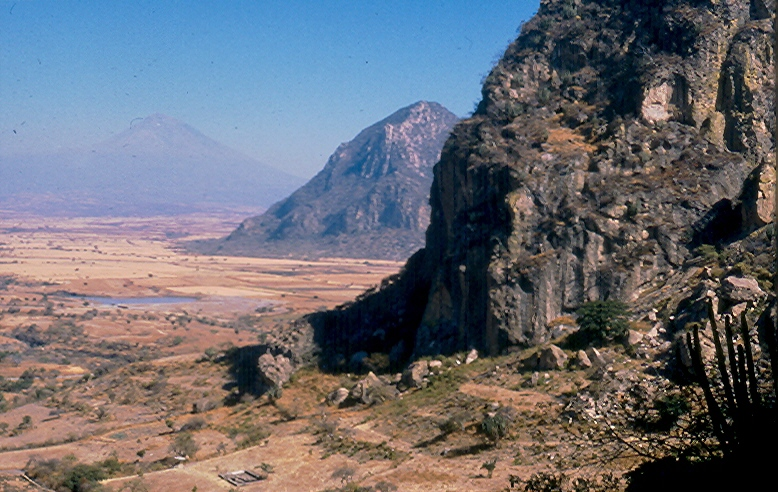 A view of the Chalcatzingo site, looking north-northwest. Popocatépetl can be seen in the distance.